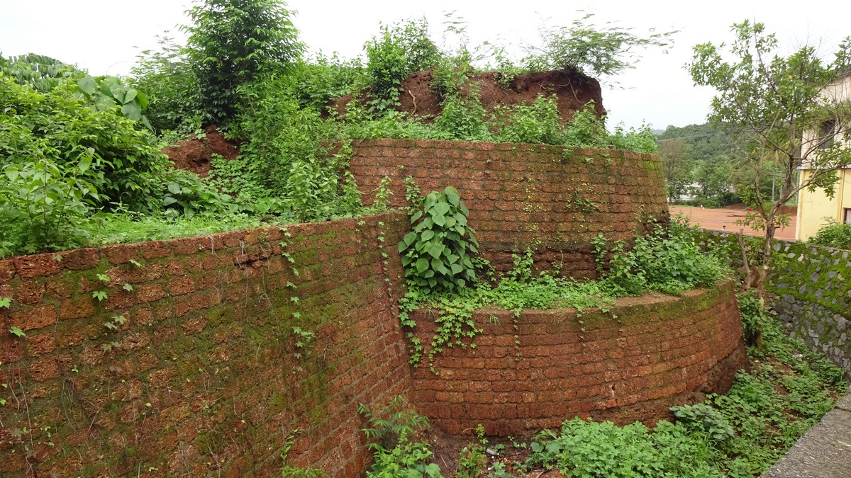 Bandadukka fort in Kasaragod District of Kerala